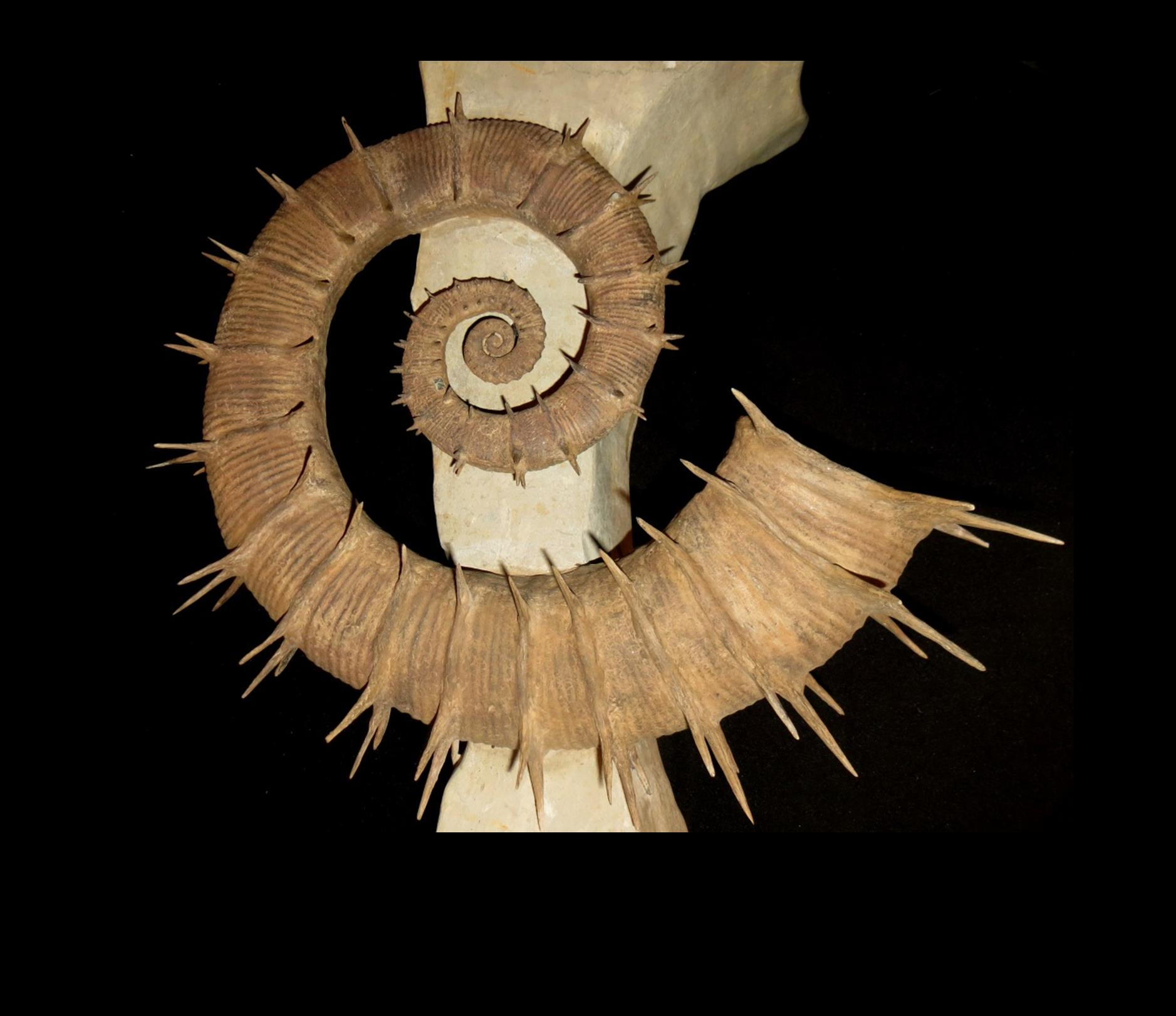 This is a superb example of a rare heteromorph ammonite fossil from the south of France. The species is Crioceratites nolani and the spines have ben partially restored to show ho it might have appeared in life. This image was featured in the book HETEROMORPH: The rarest fossil ammonites by Wolfgang Grulke published in 2014.